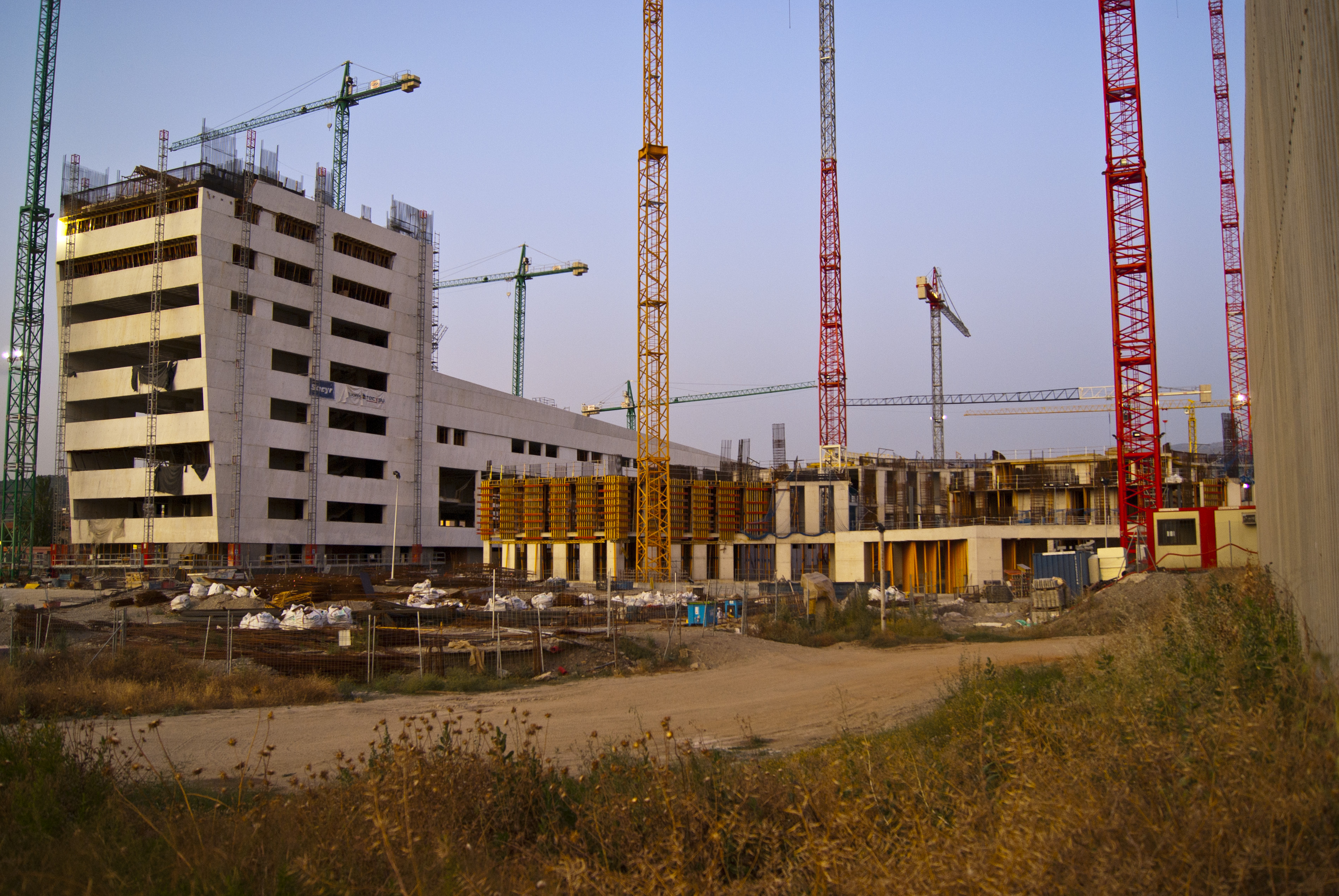 New medicine & health campus in Granada (Spain)